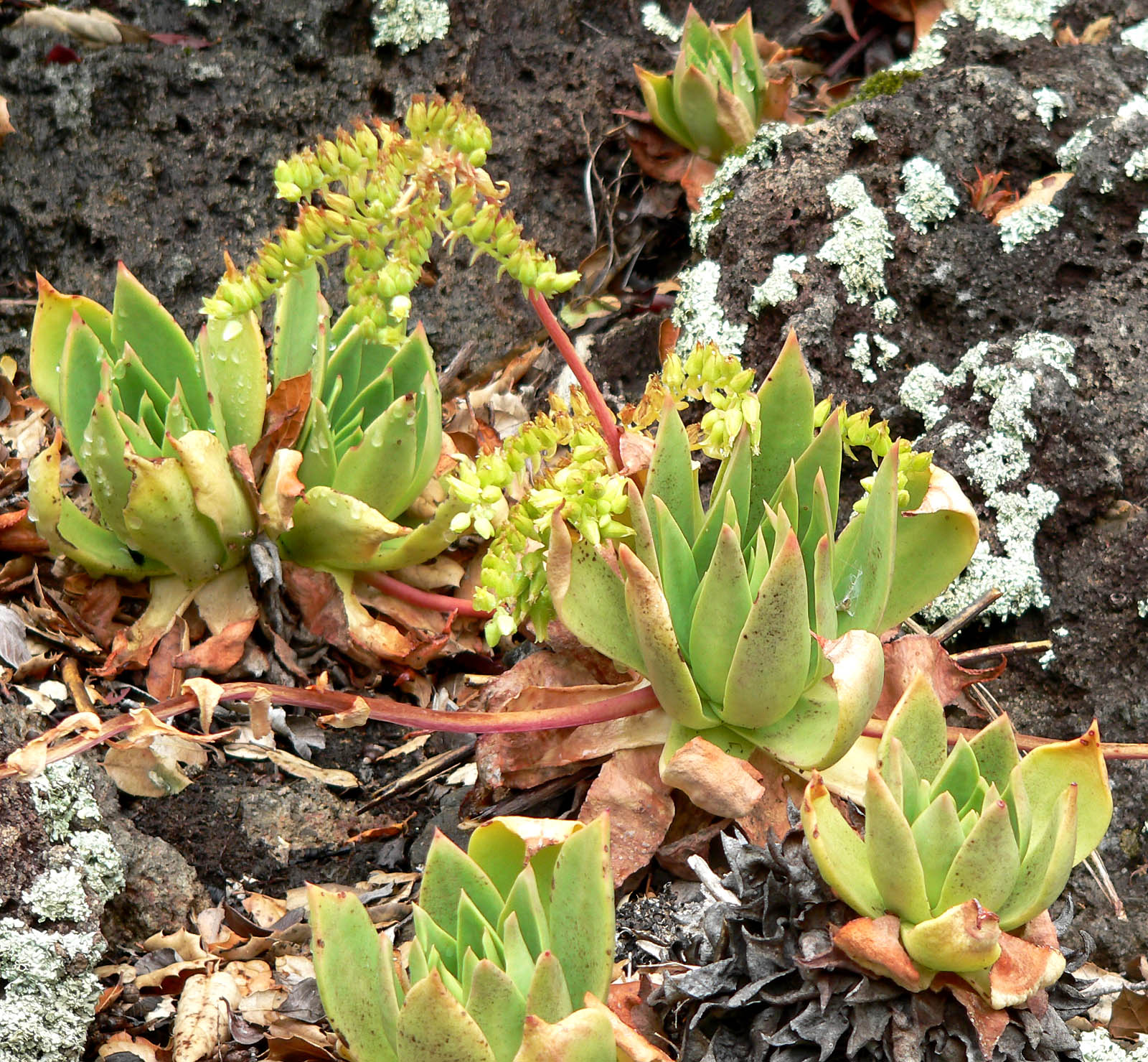 Photo of Dudleya candelabrum at the Regional Parks Botanic Garden